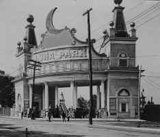 Entrance to Luna Park, Arlington, Virginia. The amusement park was in operation from 1906 to 1915.